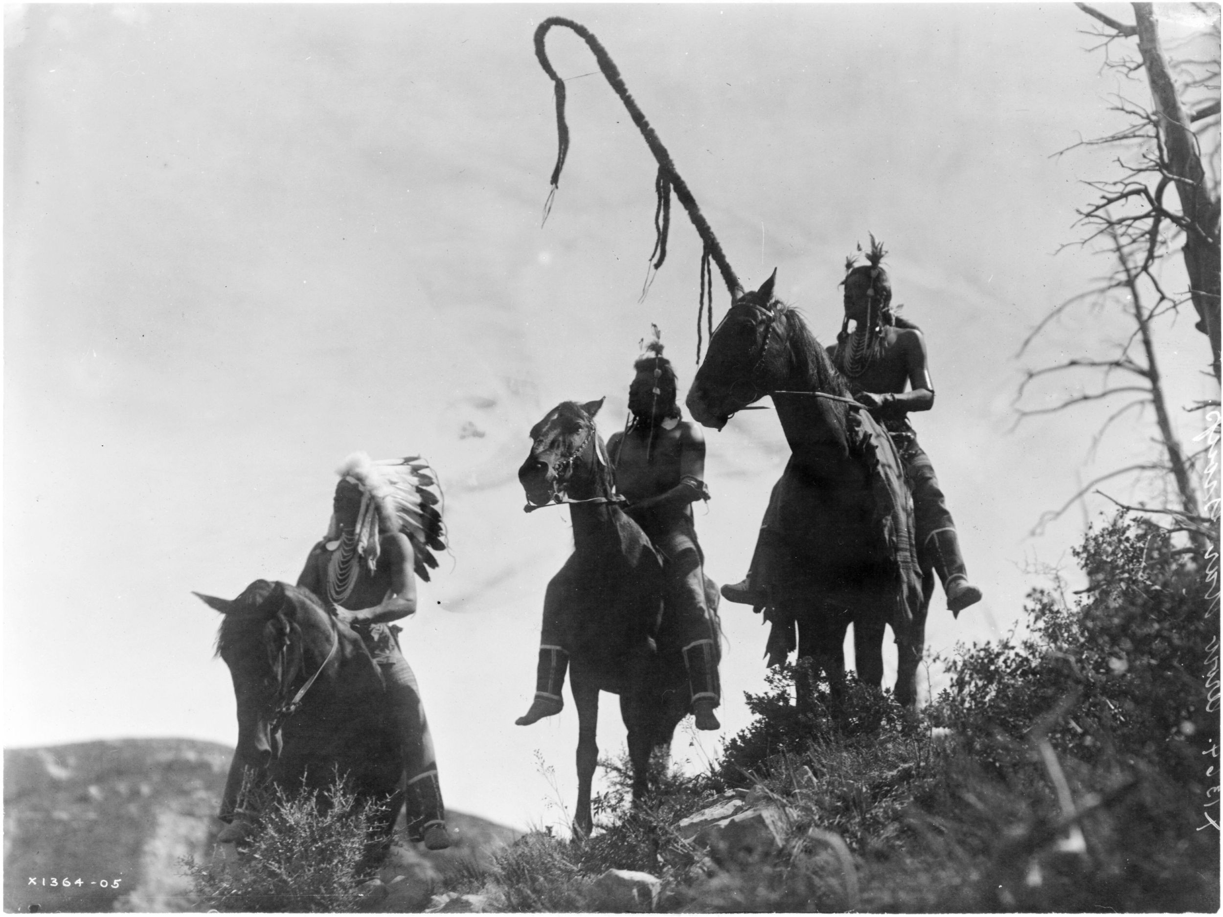 Three mounted Crow men in authentic traditional clothing, photographed by Edward S. Curtis on the Crow Reservation Montana, 1908.